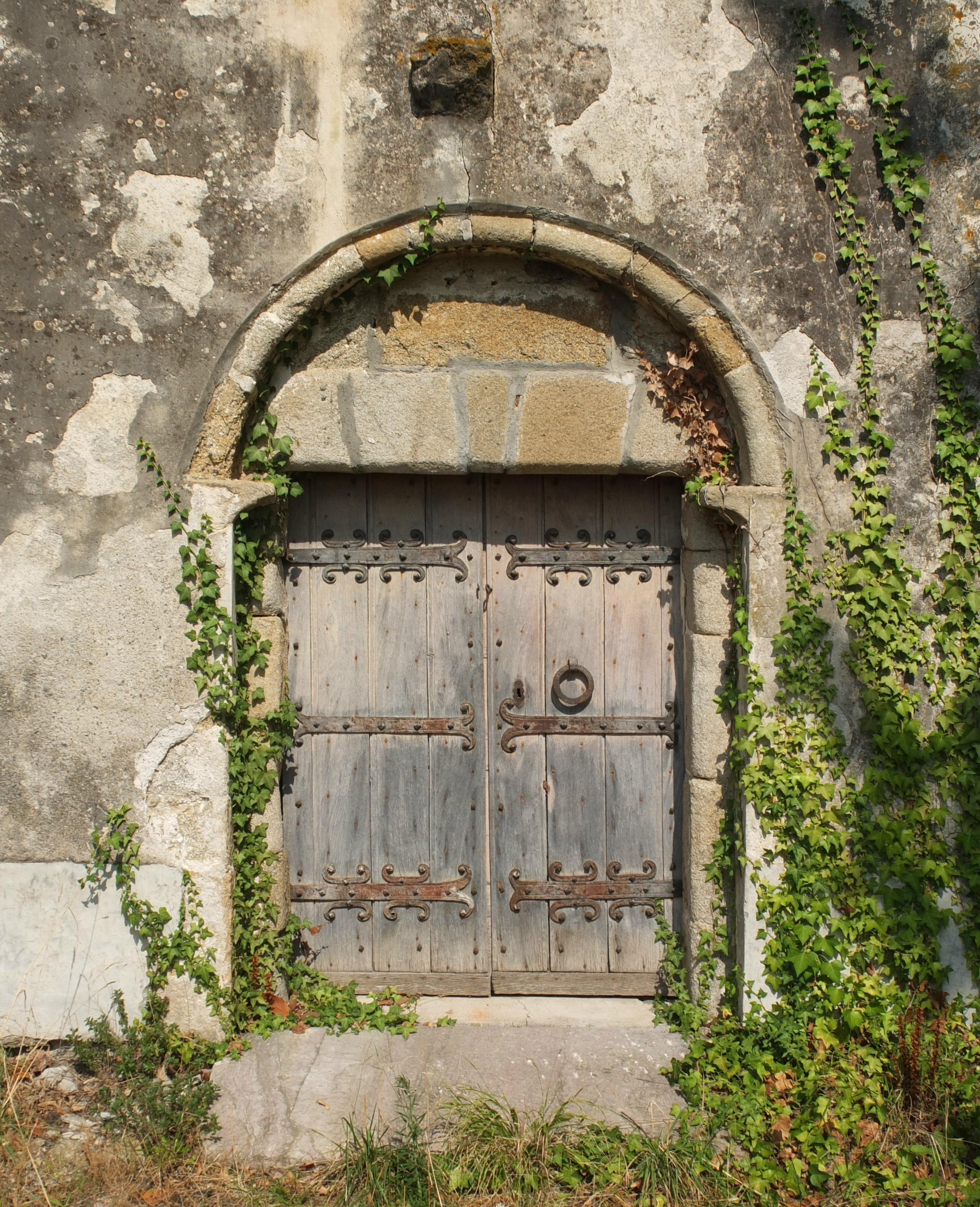 Portal of the romanesque chapel Saint-Pierre de Vilaclara, Palau-del-Vidre, France